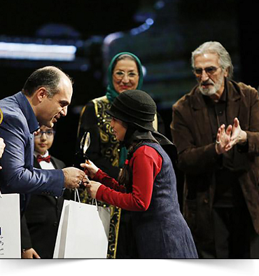 4 th annivo